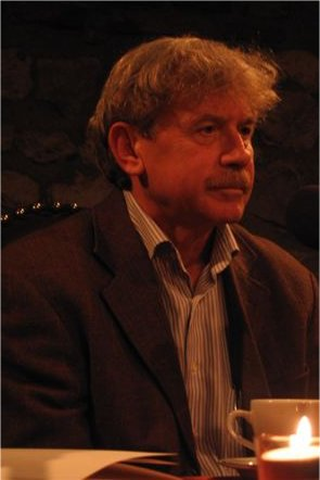 Bogdan Tosza (b. 1952), Polish theatre director